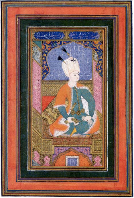 Sultan Ahmed I, seated on a throne. Miniature located at National Museums of Scotland (Inv. 1888.88)